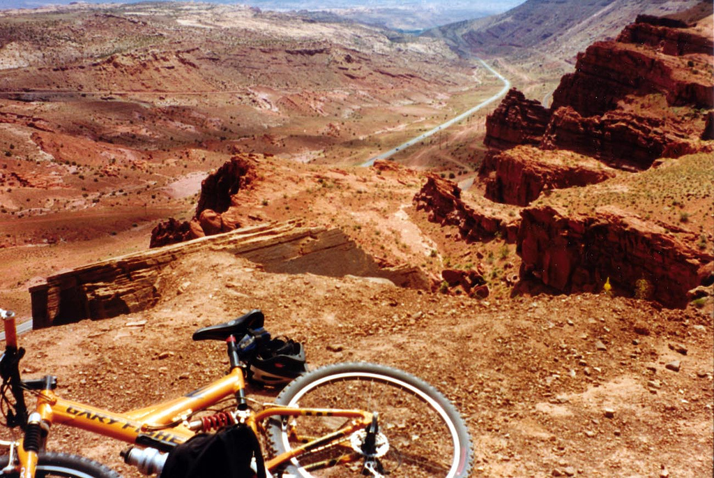 Great view; this was near the end of the trail (after the 'bridges'). UT 313 in the distance (that is ridden back into Moab).